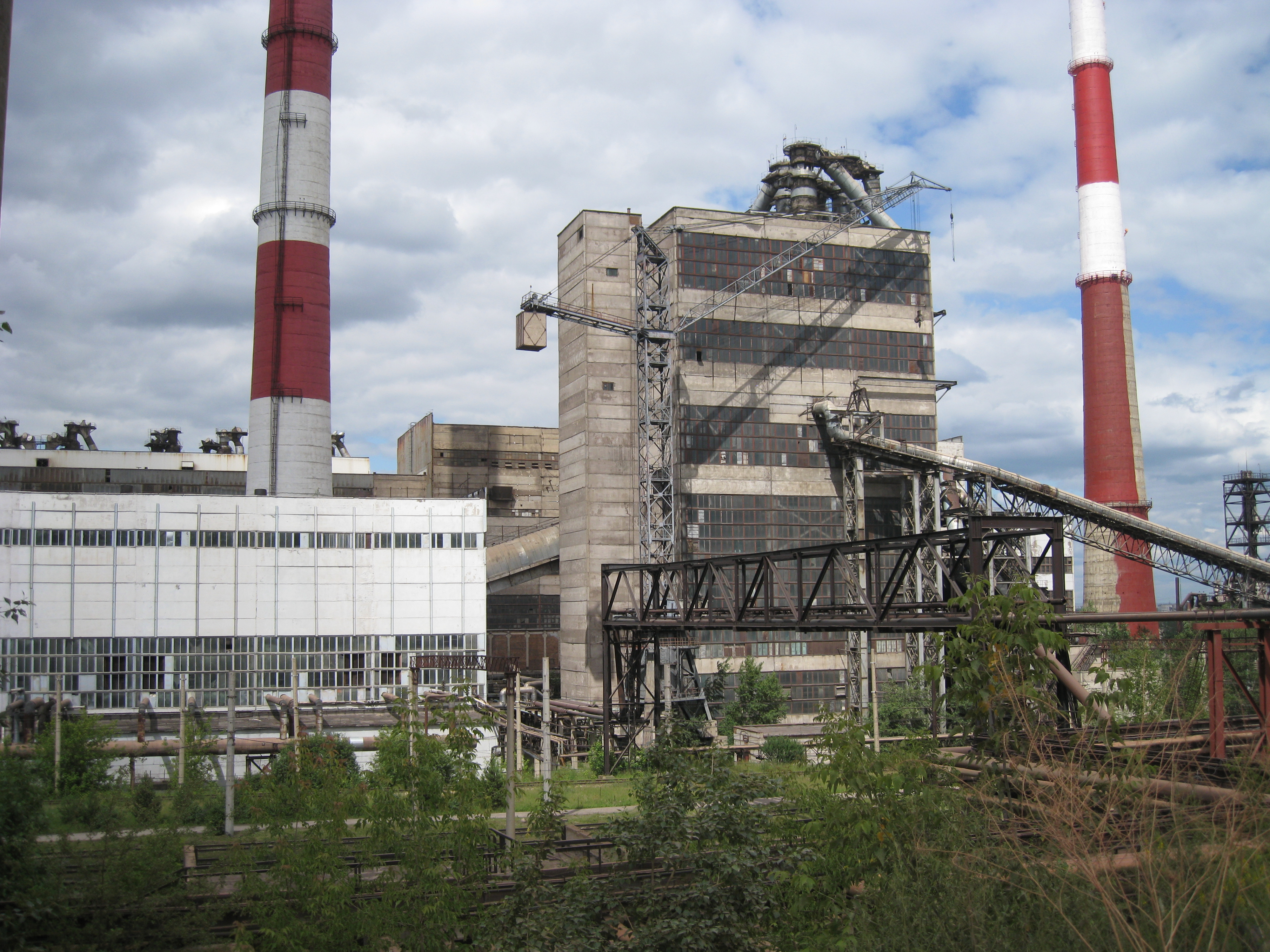 Krasnoyarsk TEC-2 (Krasnoyarsk combined heat and power plant N 2)